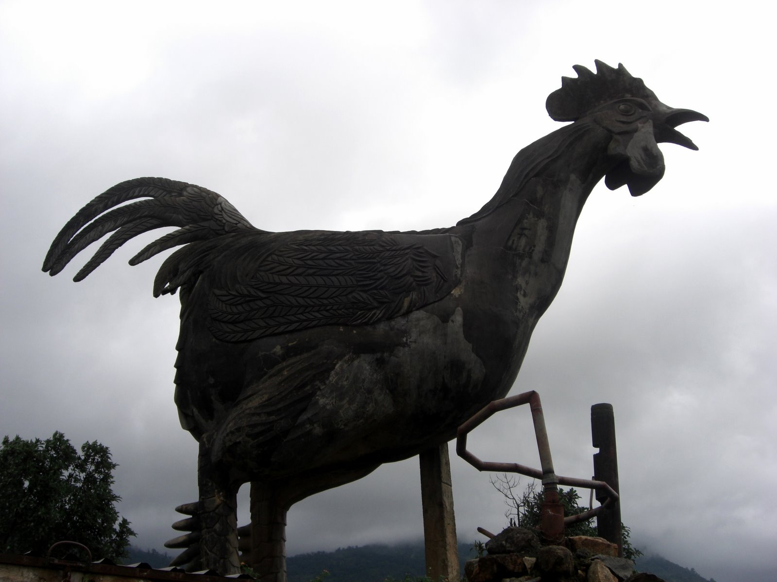 The cock in the village